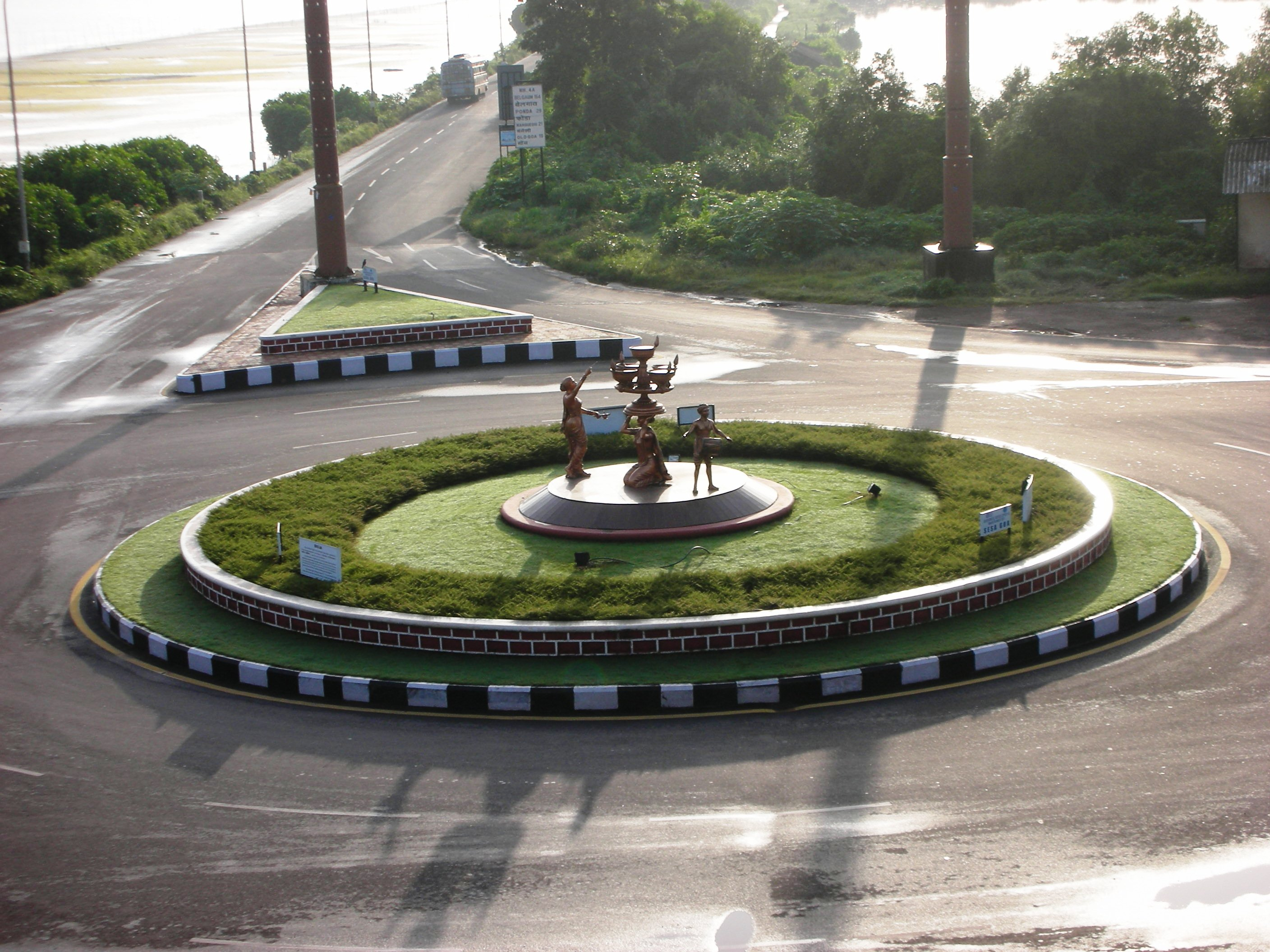 panajim circle